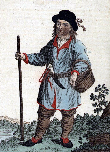 Finnish people.